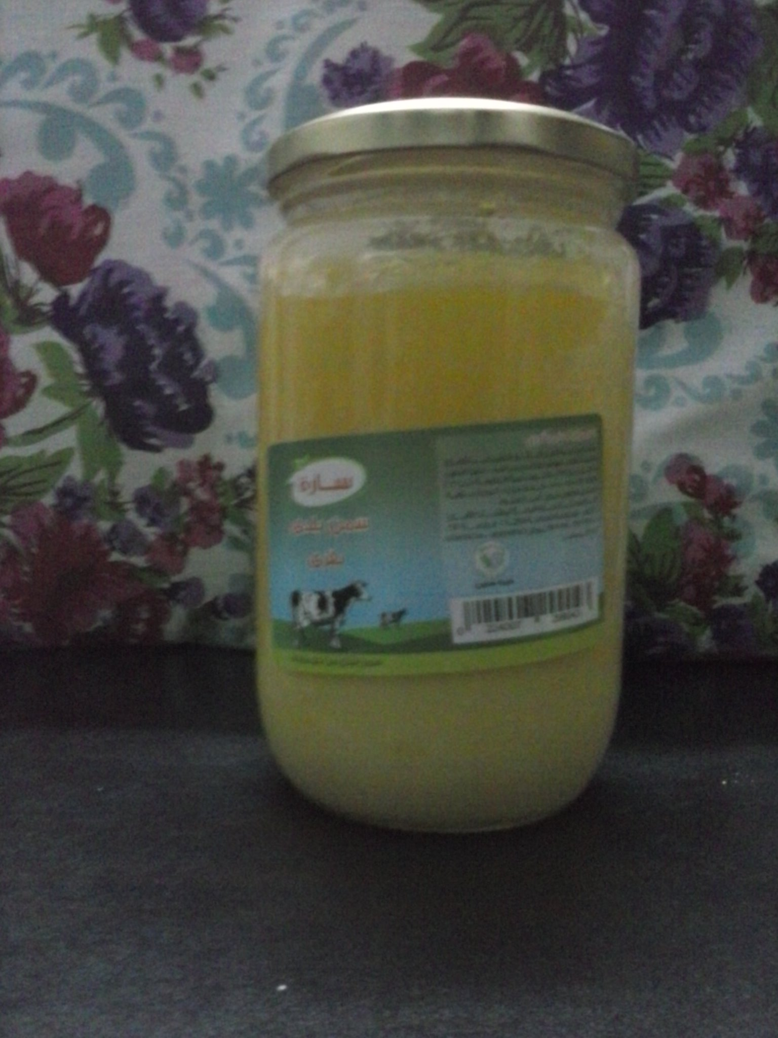 Egyptian cow margarine. This is an image of food from Egypt